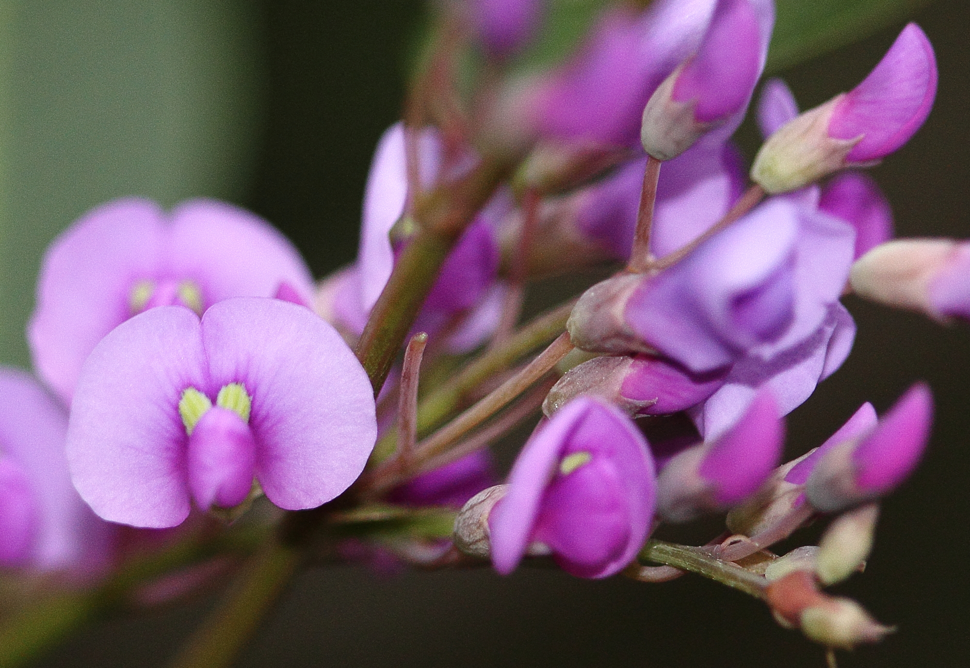 Close-up of blossom of Hardenbergia violacea, picture taken in botanical garden Flora in Cologne, Germany. Origin of the plant is Tasmania.